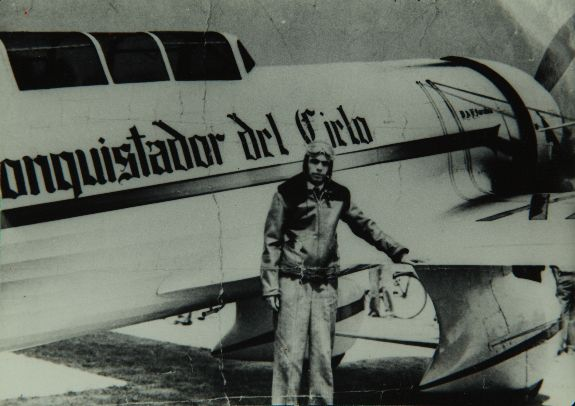 Catalog #: 02-S-00056 Last Name: Sarabia First Name: Francisco Repository: San Diego Air and Space Museum Archive